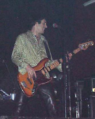 Live Shot;Other information: no